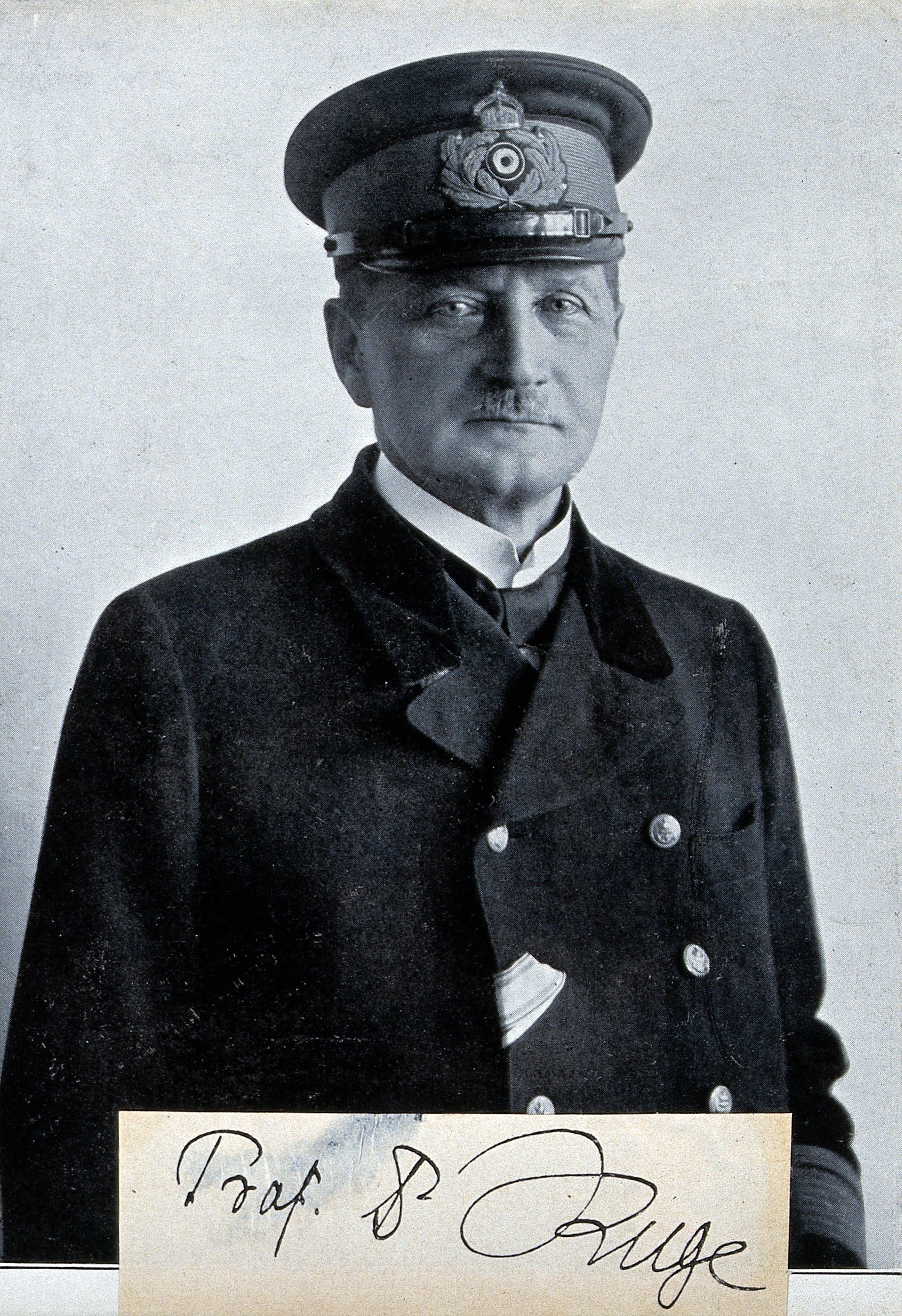 Reinhold Ruge. Photograph. Iconographic Collections Keywords: portrait photographs